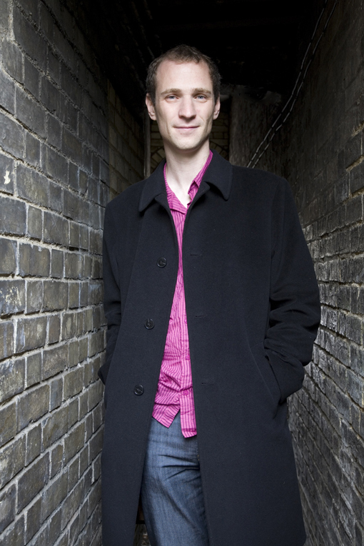 ScraperWiki - Francis Irving